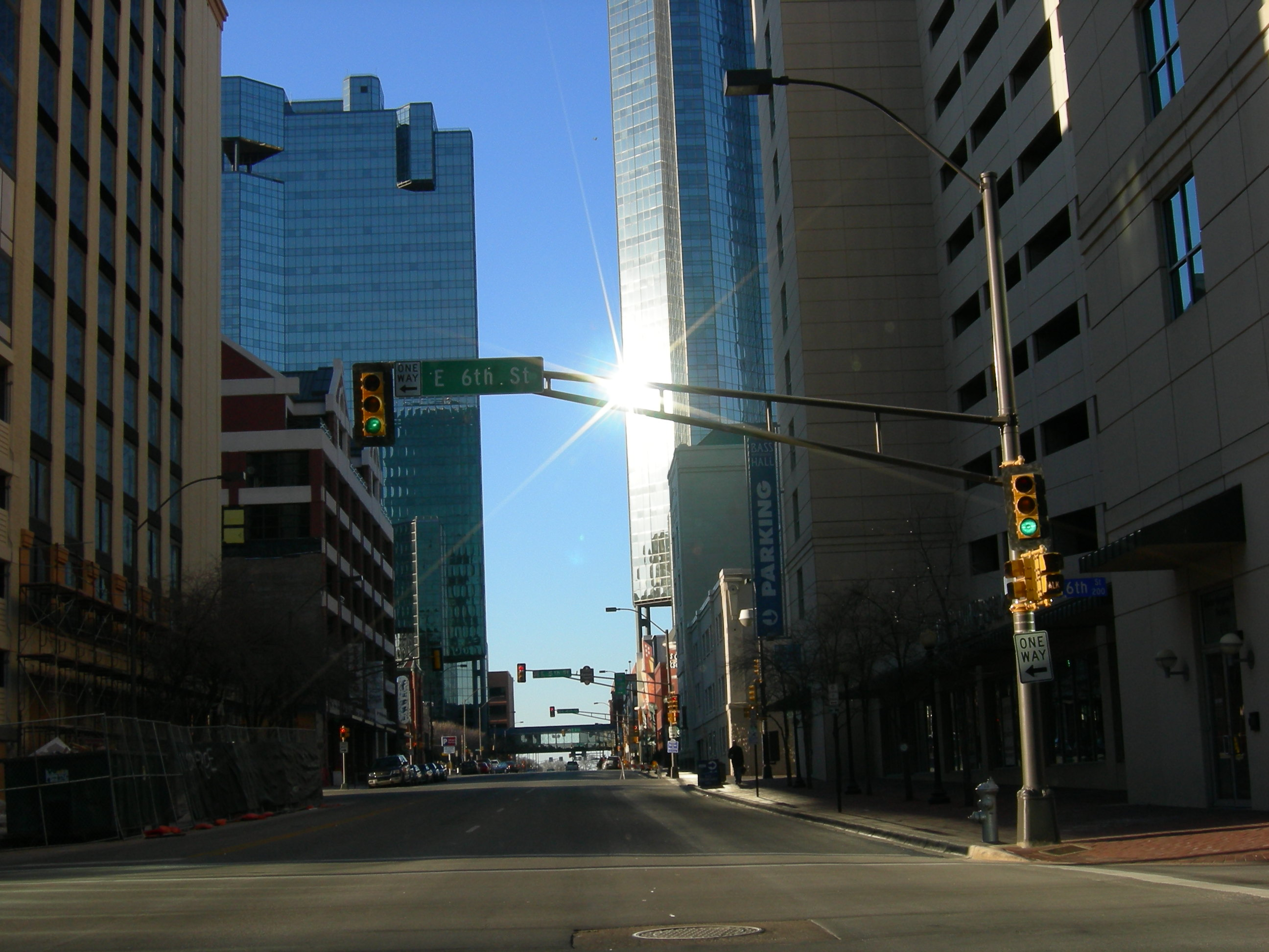 Downtown Fort Worth, Texas.